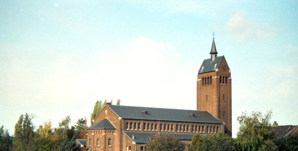 St Jozefkerk te Oost somewhere in the 20th century, before what's in the foreground was covered with concrete